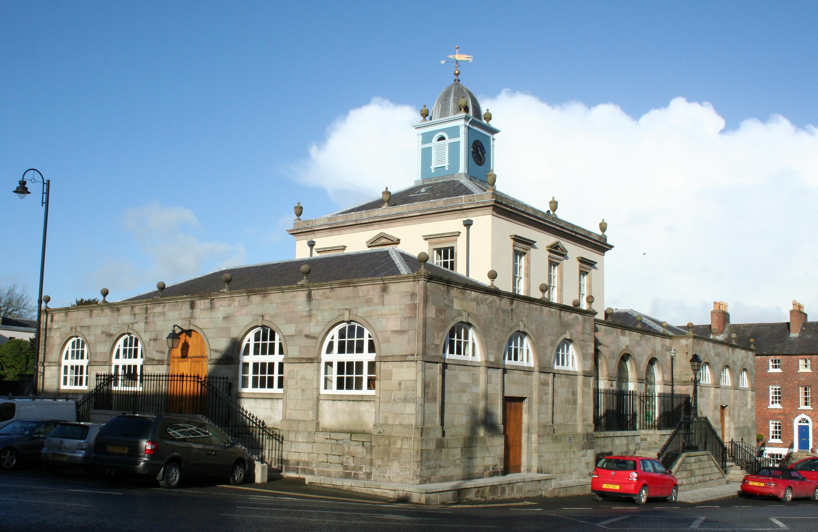 Hillsborough Market House Author: Peter Clarke